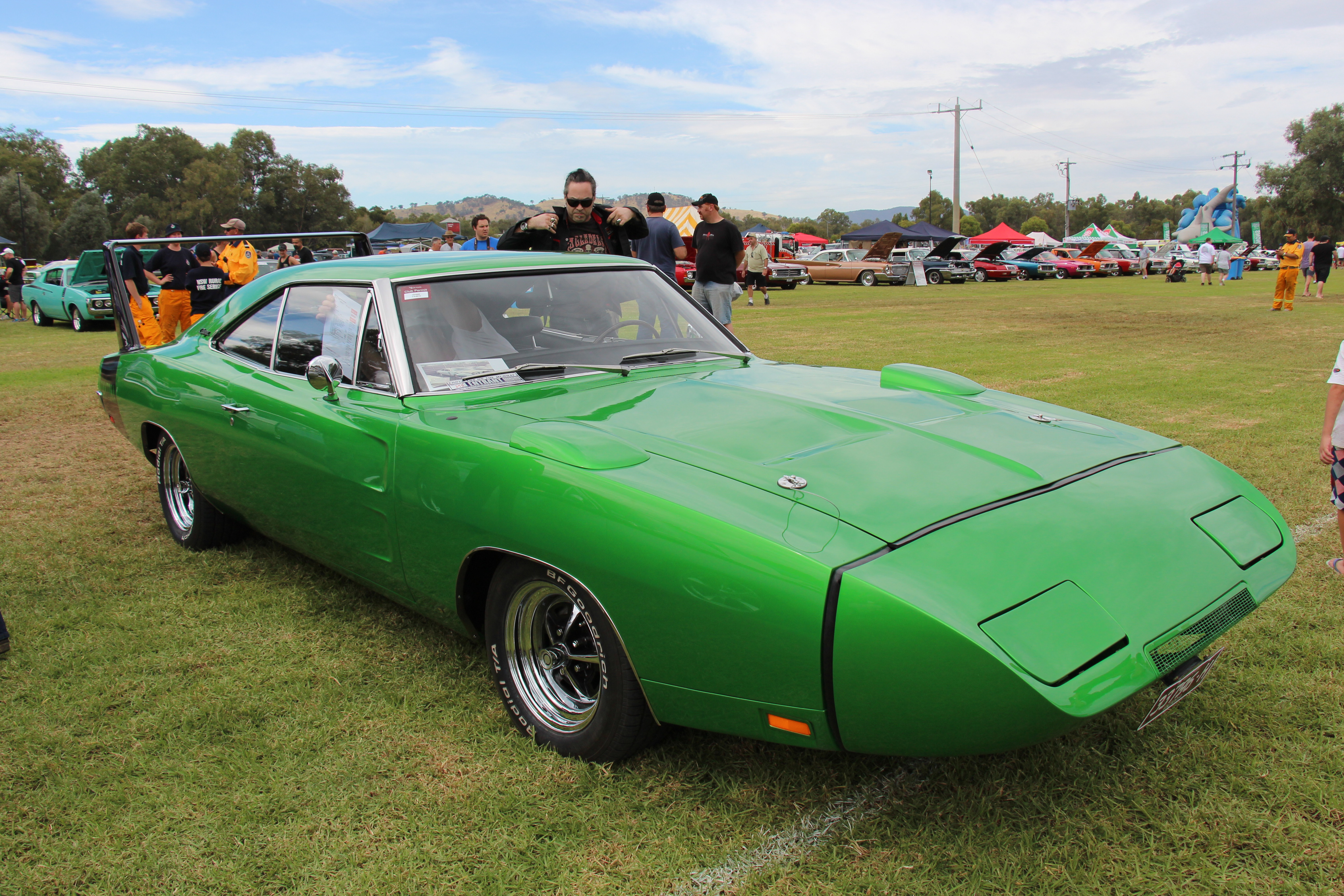 The Daytona was a high-performance, limited-edition version of the Dodge Charger produced in the summer of 1969 for the sole purpose of winning high profile NASCAR races. The Dodge Daytona featured special body modifications that included a 23-inch-tall stabilizer wing on the rear deck, a special sheet-metal "nose cone" that replaced the traditional upright front grille, a flush rear backlight. It won its first race out, the inaugural Talladega 500and its successor, the Plymouth Superbird won many races as well. Engine; 440 magnum (70 of the 503 made got the optional 426 Hemi)